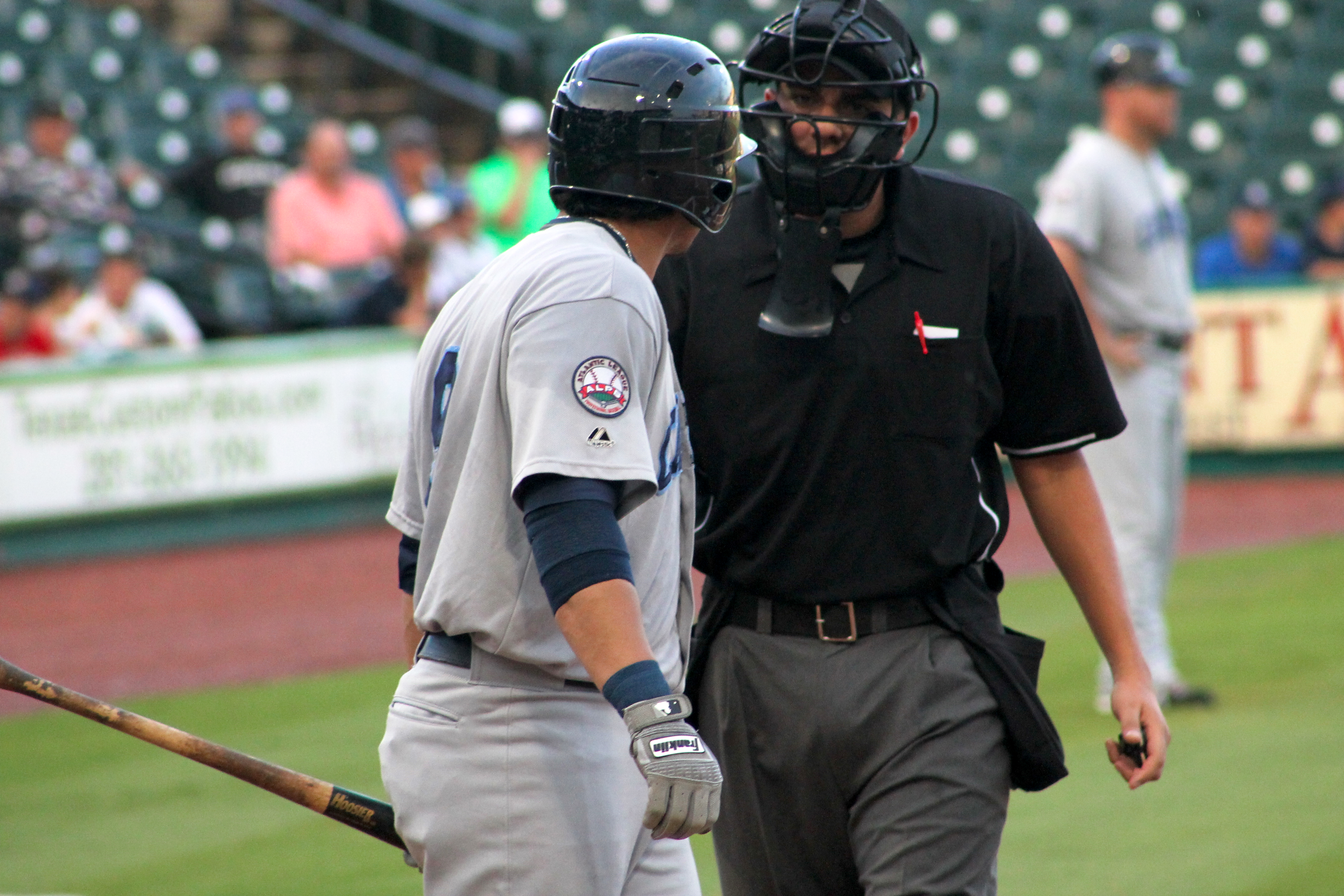 José Morales, a baseball player with the Camden Riversharks during a July 2014 game.